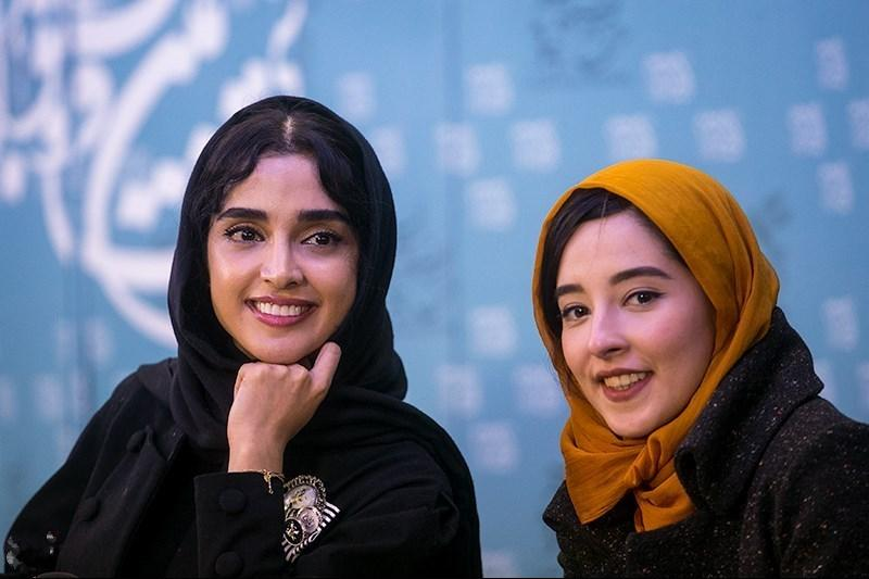 Media conference of Sophie and the beast at Milad tower.